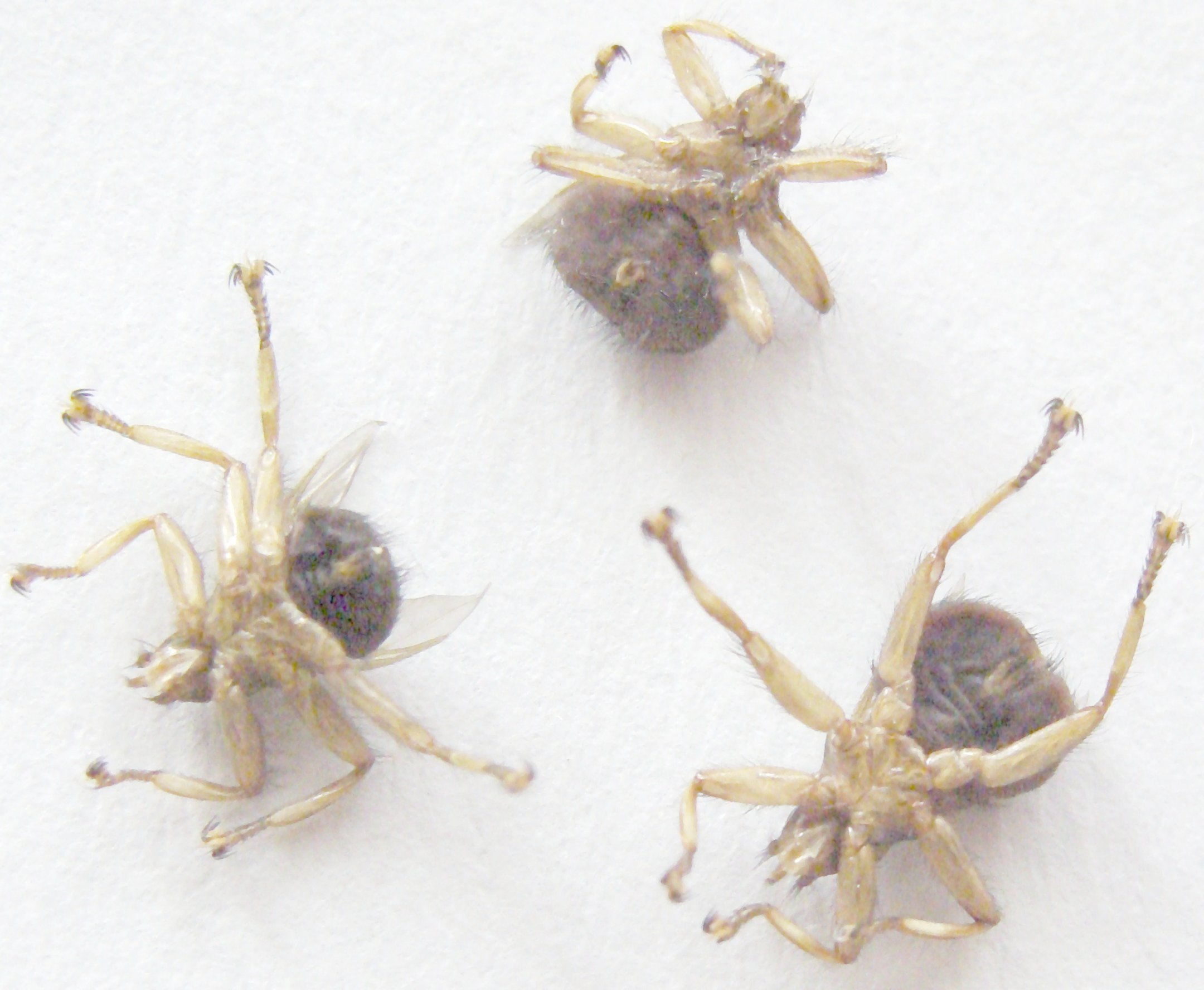 Crataerhina pallida